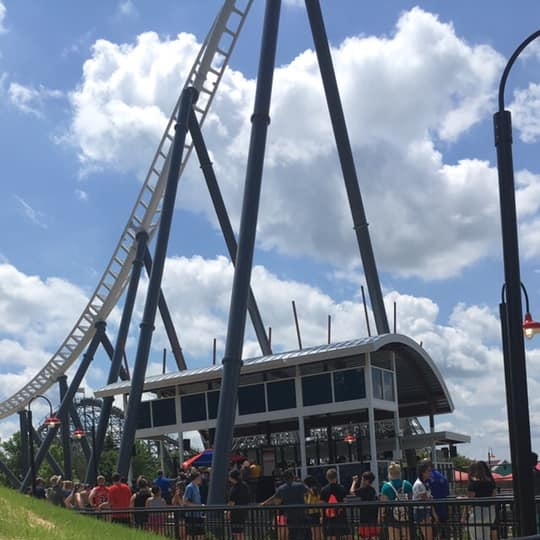 Maxx Force launched steel roller coaster and queue line shortly after opening.